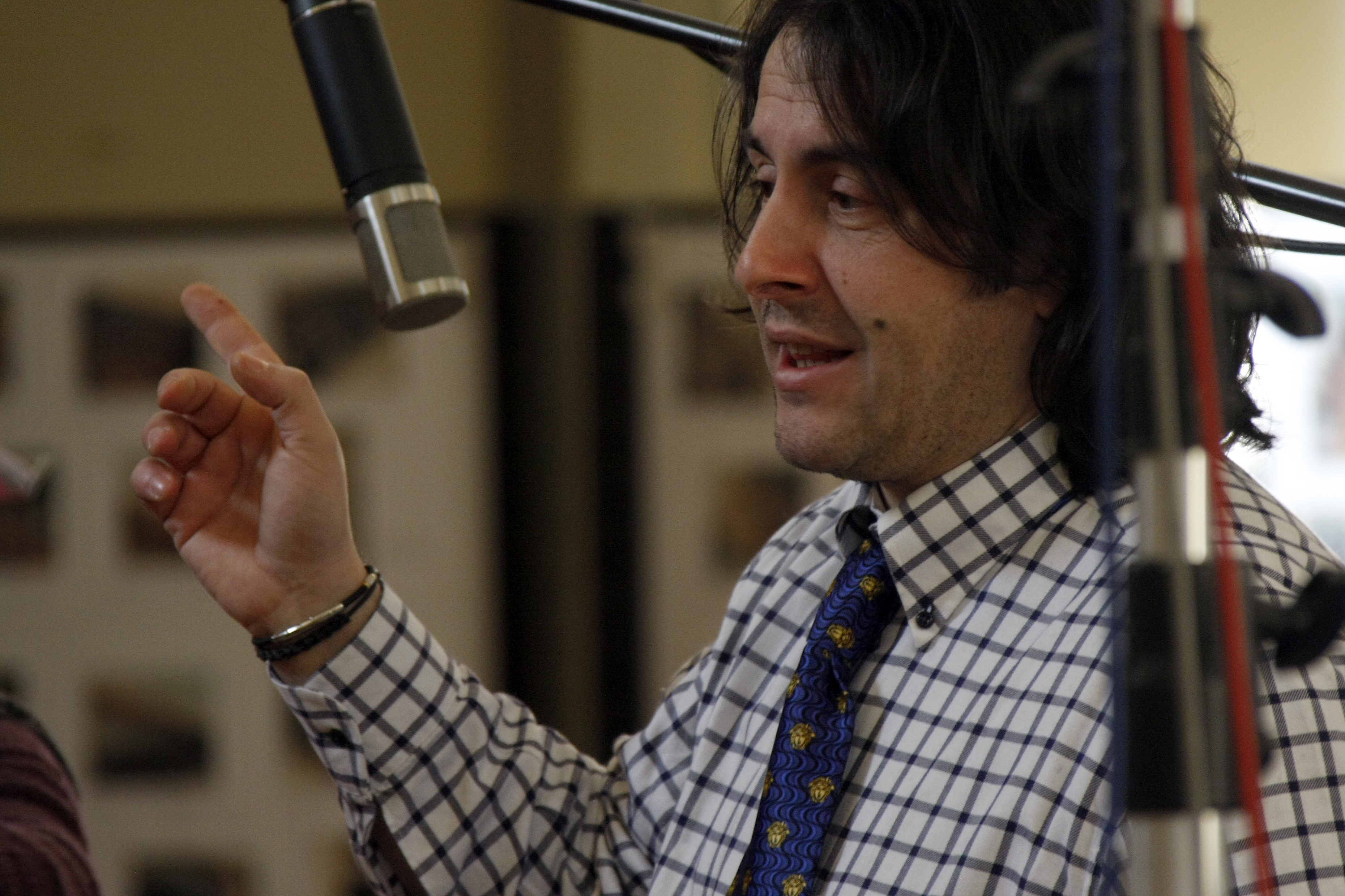 RICCARDO FAVERO